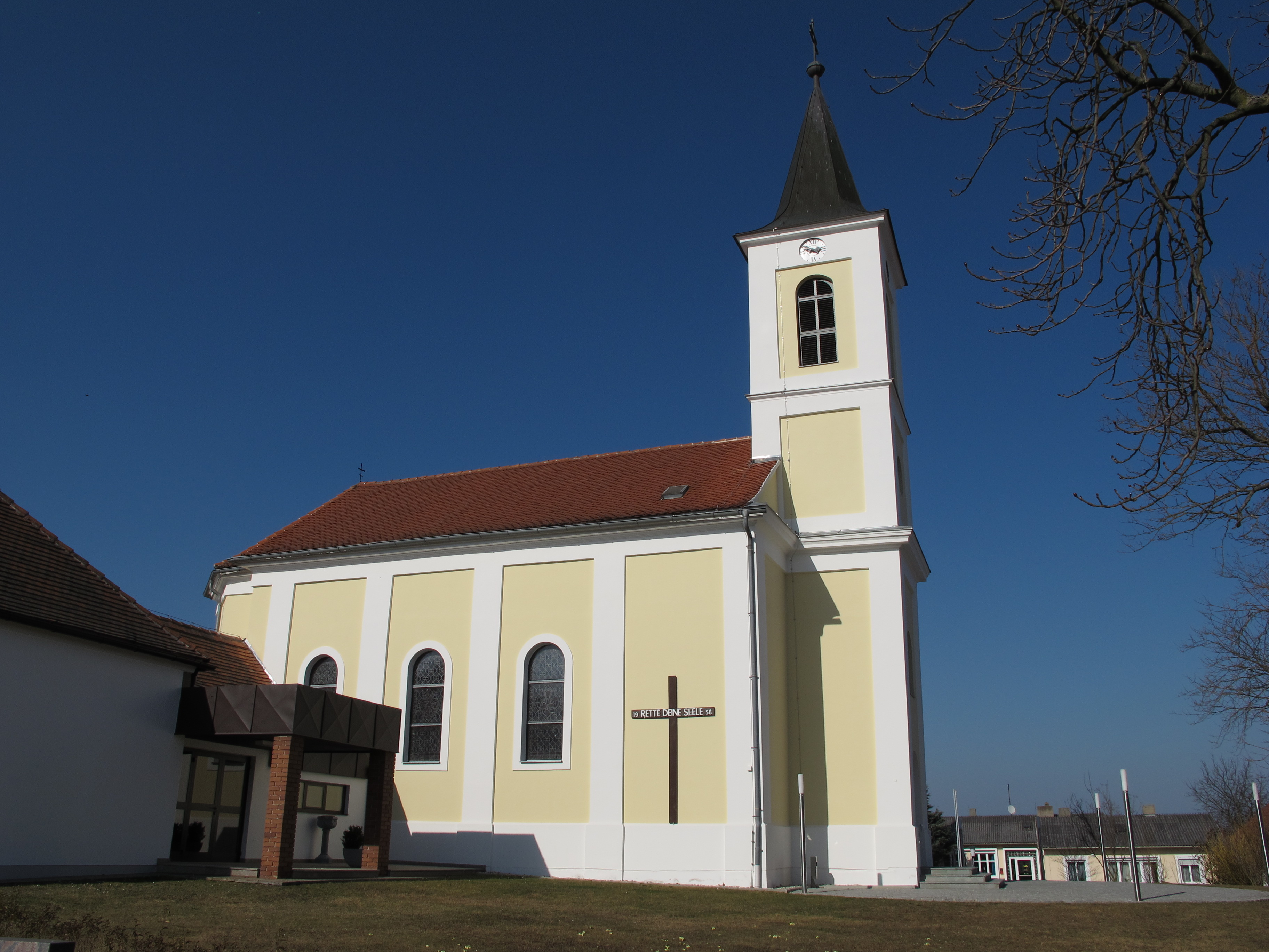 Pfarrkirche Großmürbisch